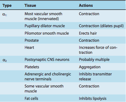 alpha blocker location